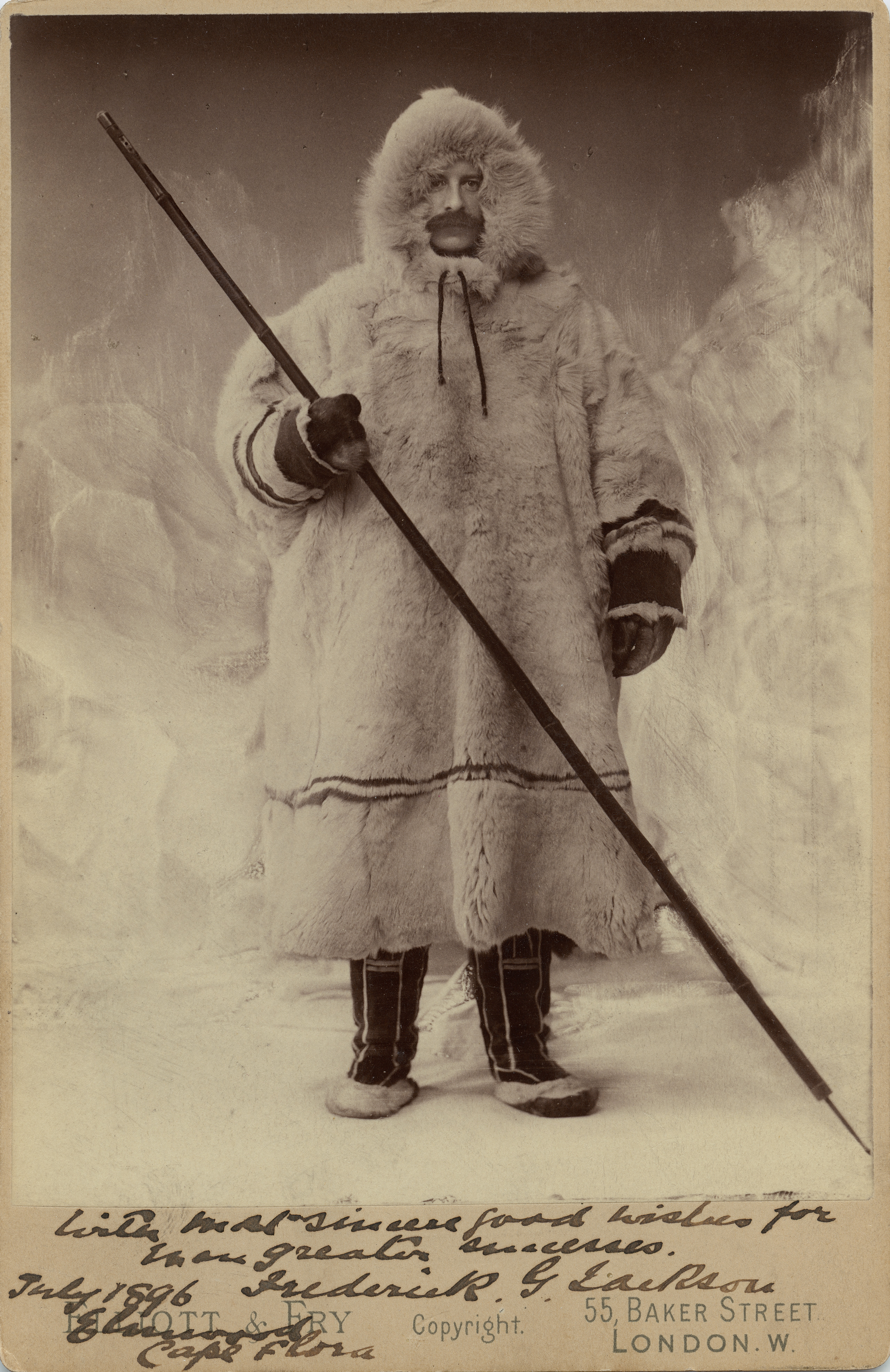 Frederick George Jackson, British officer and arctic researcher. During the years1894-1897, he established a meteorological station and surveyed Franz Joseph Land, where he met Fridtjof Nansen and Johansen on June 17, 1896. Studio photo.